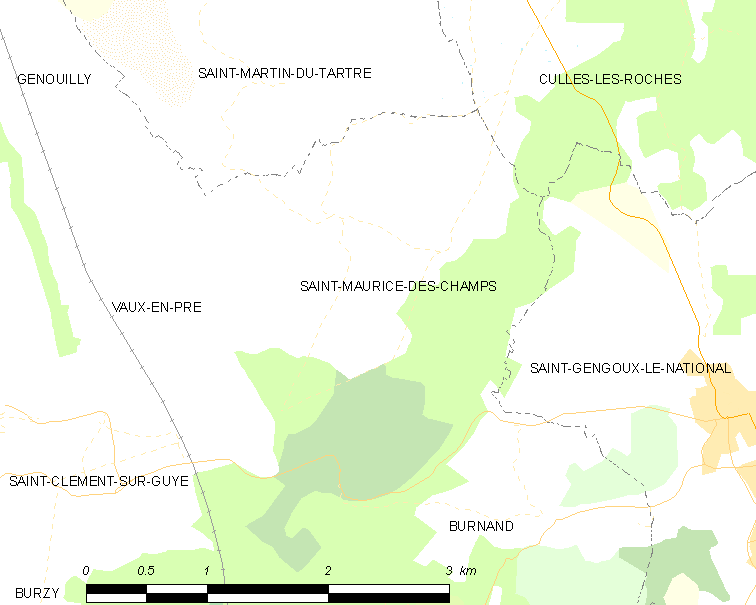 Map of French municipality